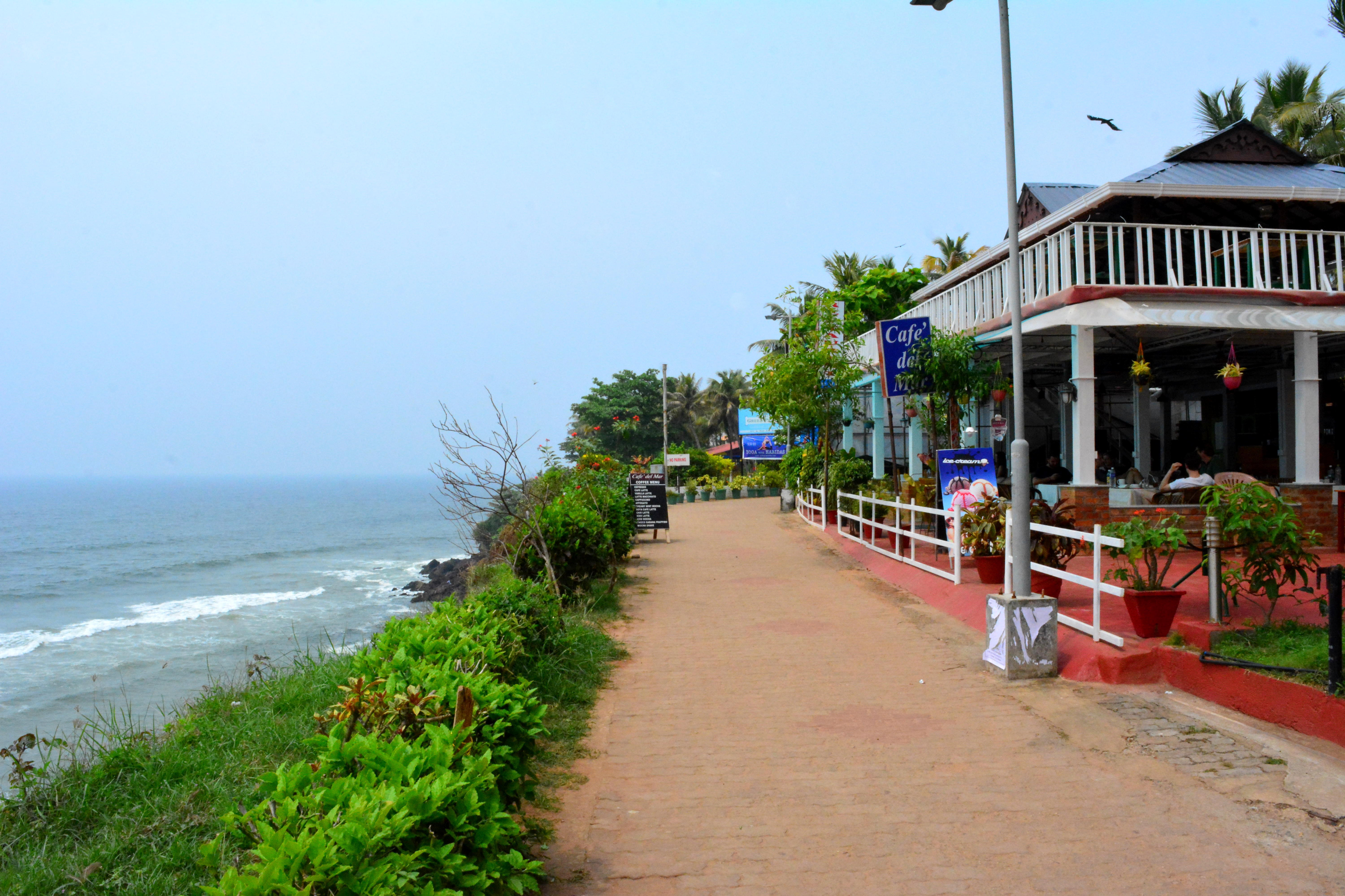 The promenade at Varkala built on the North Cliff.